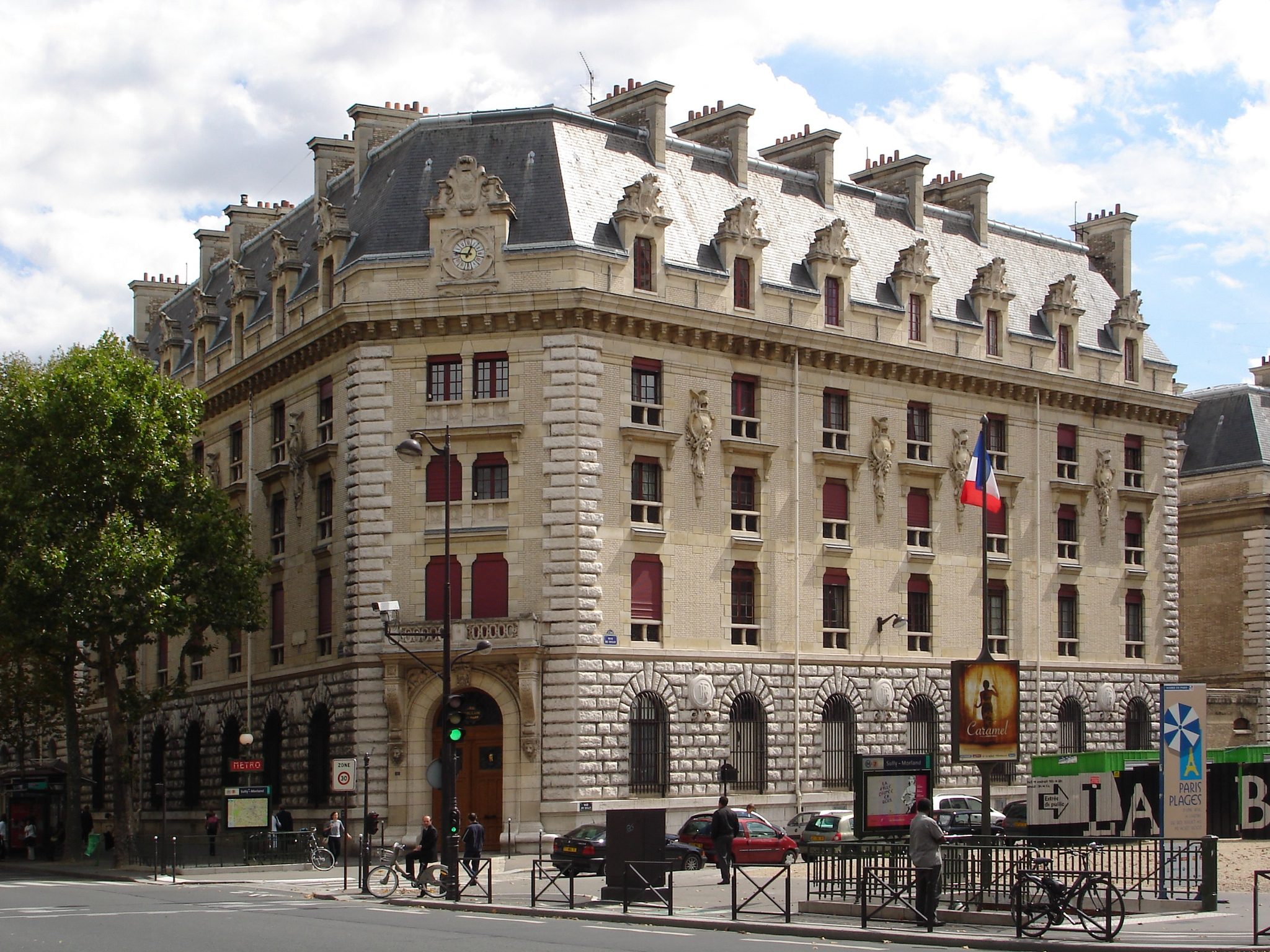 Barrack of the French "Garde Republicaine" (Caserne des Celestin)- Bd Henri IV; general view.